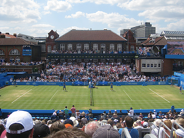 Queen's Club, Centre court ahead of the 2010 Singles final